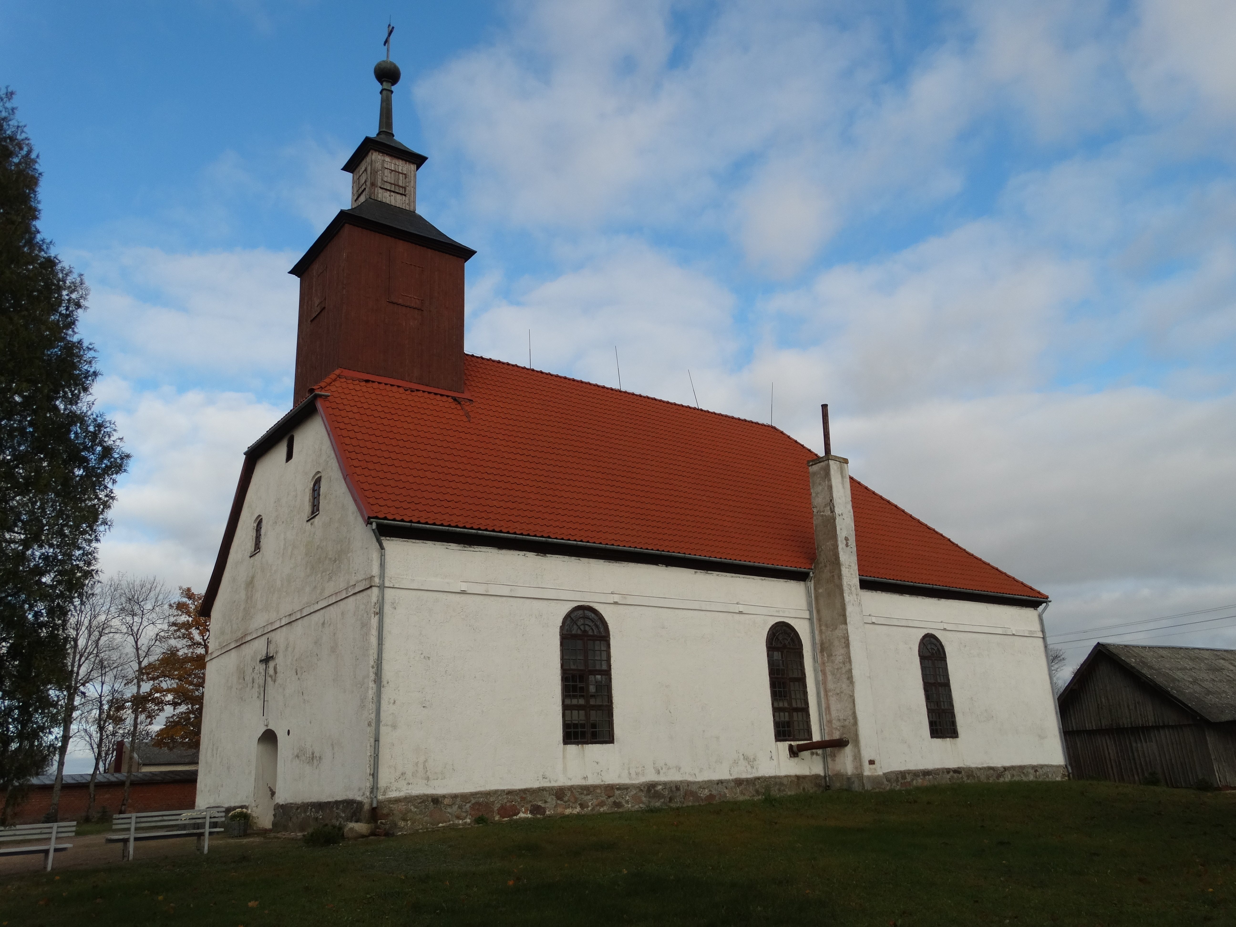 Lutheran Church, Katyčiai, Šilutė district, Lithuania